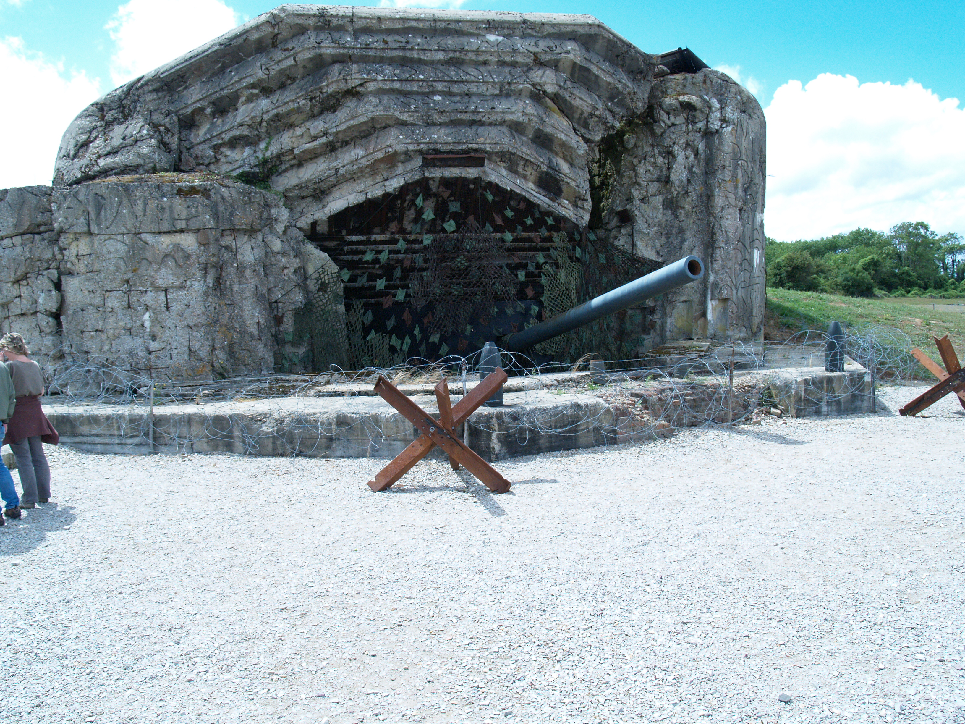 Crisbecq Battery